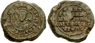 METROPHANES, Metropolitan of Smyrna. Circa 857-879 AD. Lead Seal (24mm, 16.64 gm). Nimbate and mantled bust of St. Polyeuktos facing; crosses on either side / +MHT / ROFANHC / MHTROPO / LITHC CMUPNHC, in five lines across field. Zacos and Veglery -. Near VF